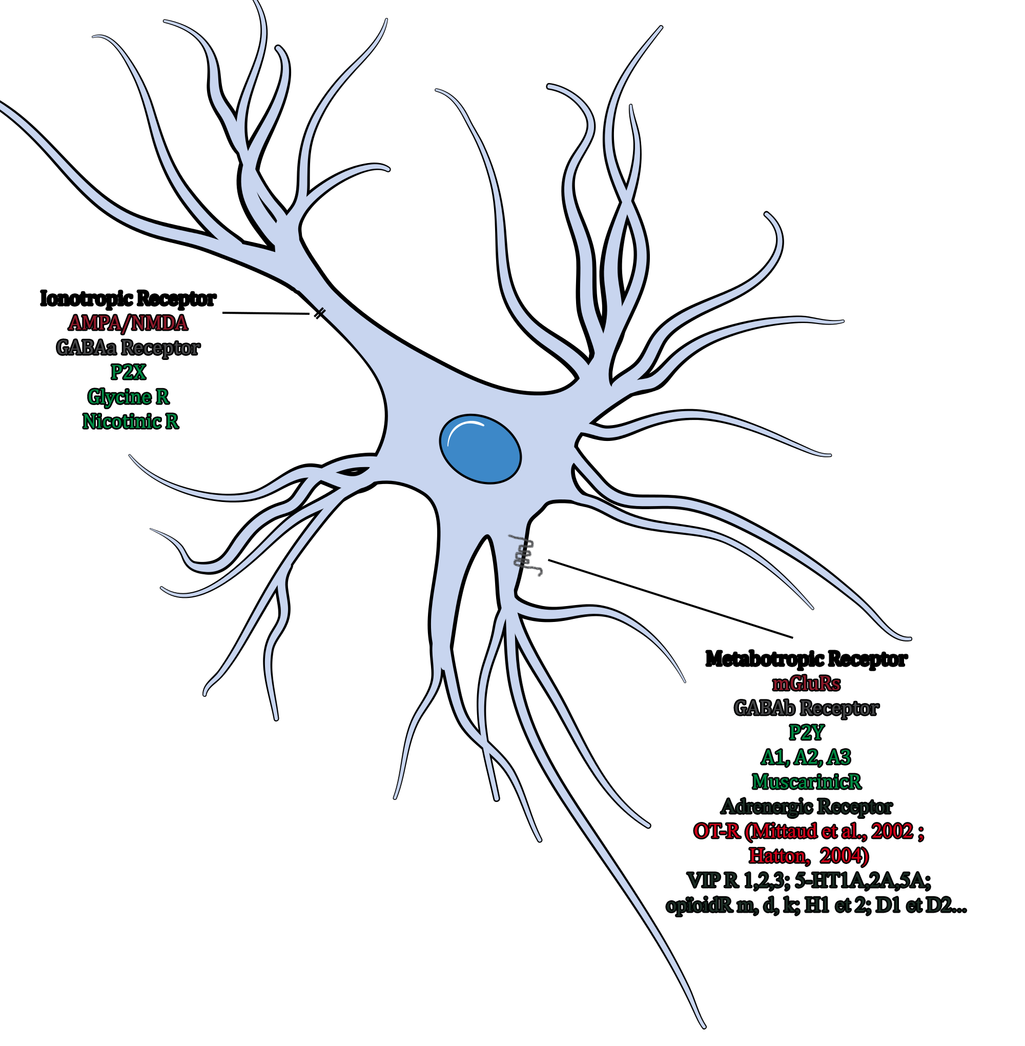 Sum up of several kind of receptors present on the Astrocyte membrane.